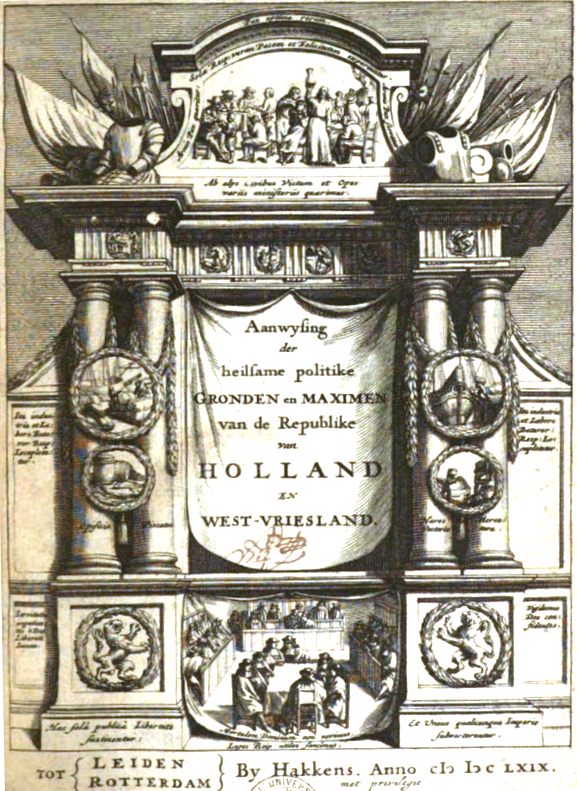 Frontispiece of Aanwysing der heilsame politike gronden en maximen van de republike Holland en West-Vriesland ("Indication of the Healthy Political Grounds and Maximes of the Republic of Holland and West Friesland"), a 1669 book by Dutch political writer Pieter de la Court.